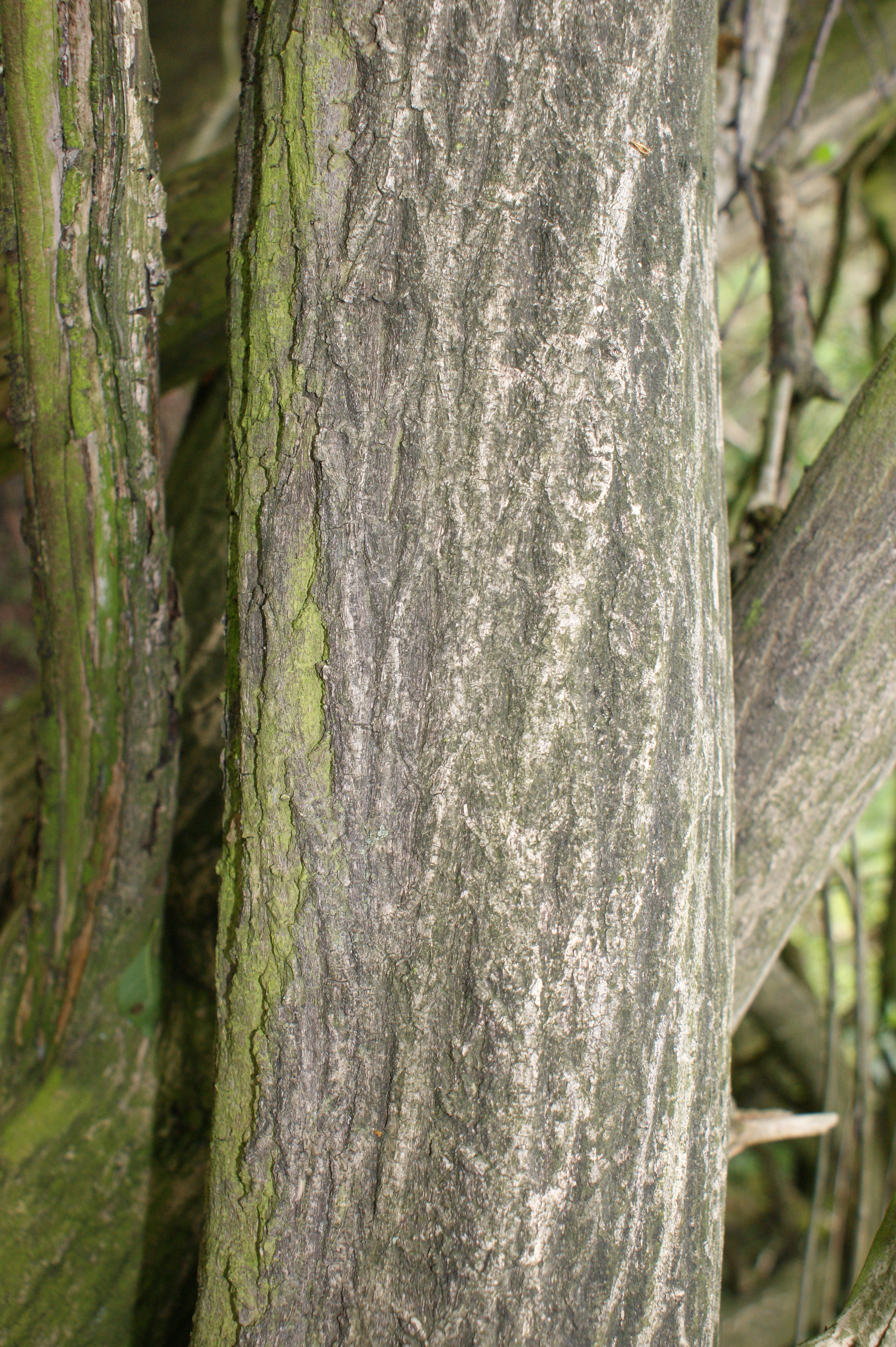 Euonymus europaeus, trunk of old specimen